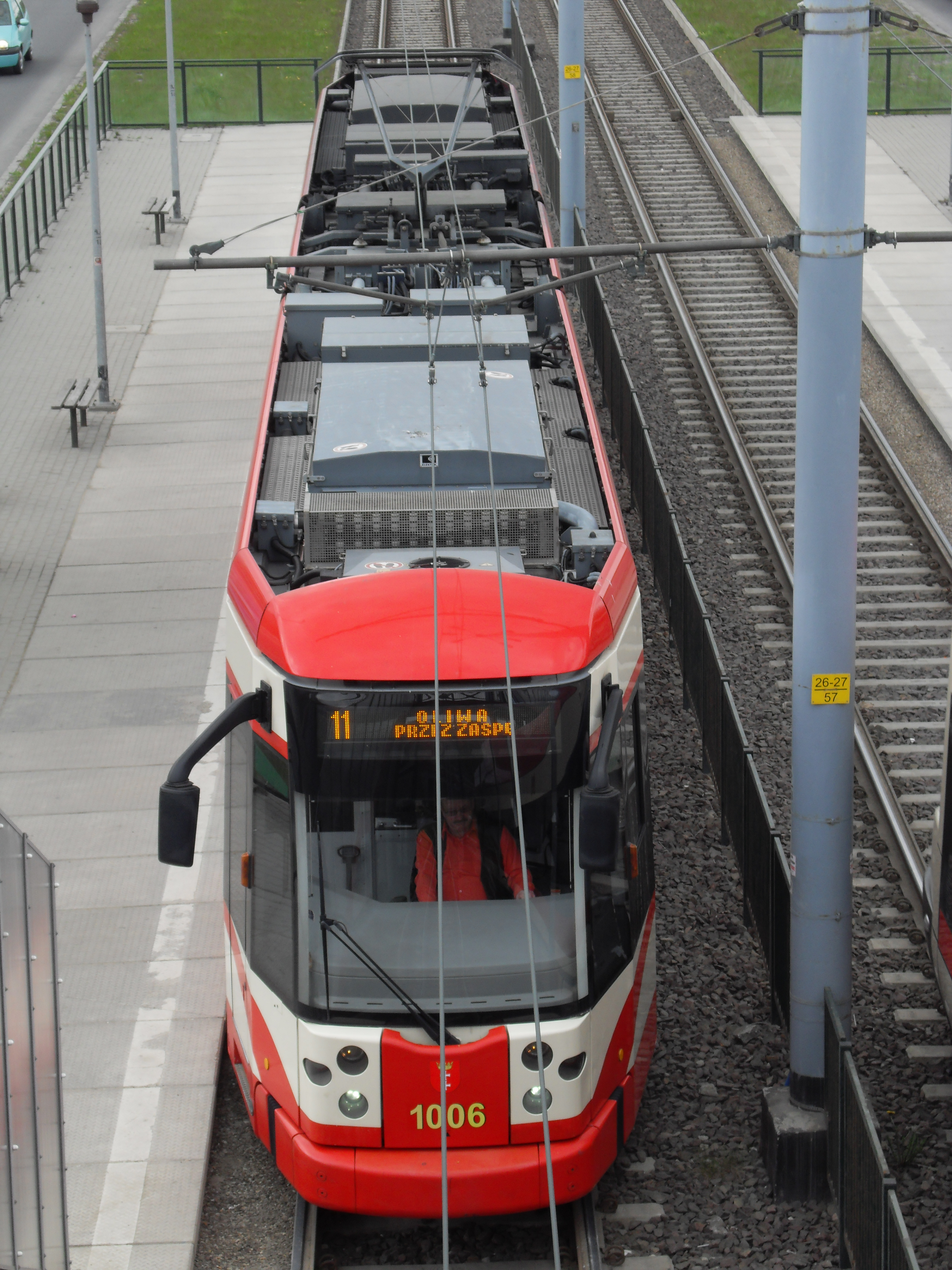 A Bombardier NGT6/2 tram in Gdańsk (Poland) - the roof.